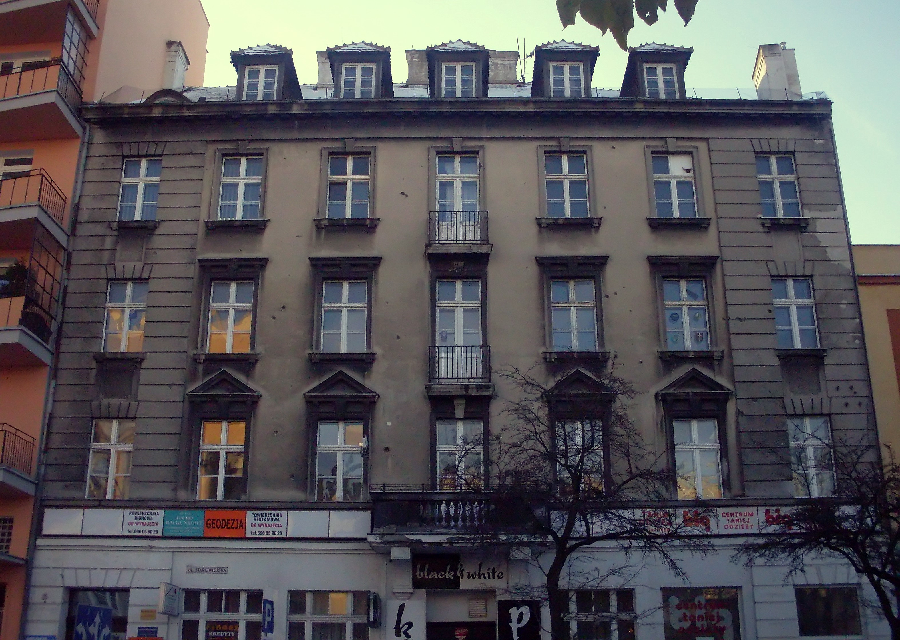 House at ulica Starowiejska 1, Gdynia.